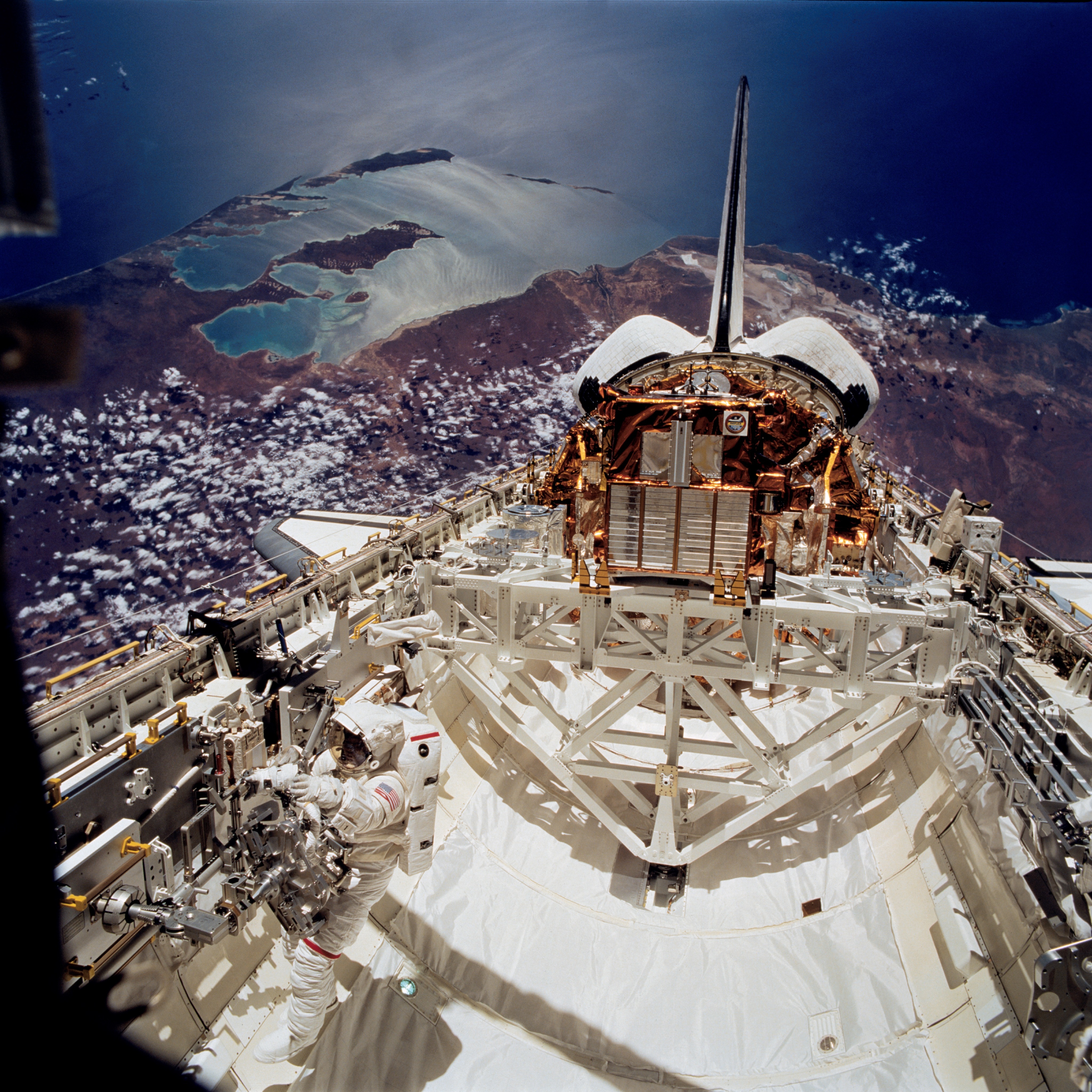 Leroy Chiao works in the payload bay of Endeavour during mission STS-72. Shark Bay, Australia looms in the background. The OAST-Flyer satellite is berthed in the cargo bay.